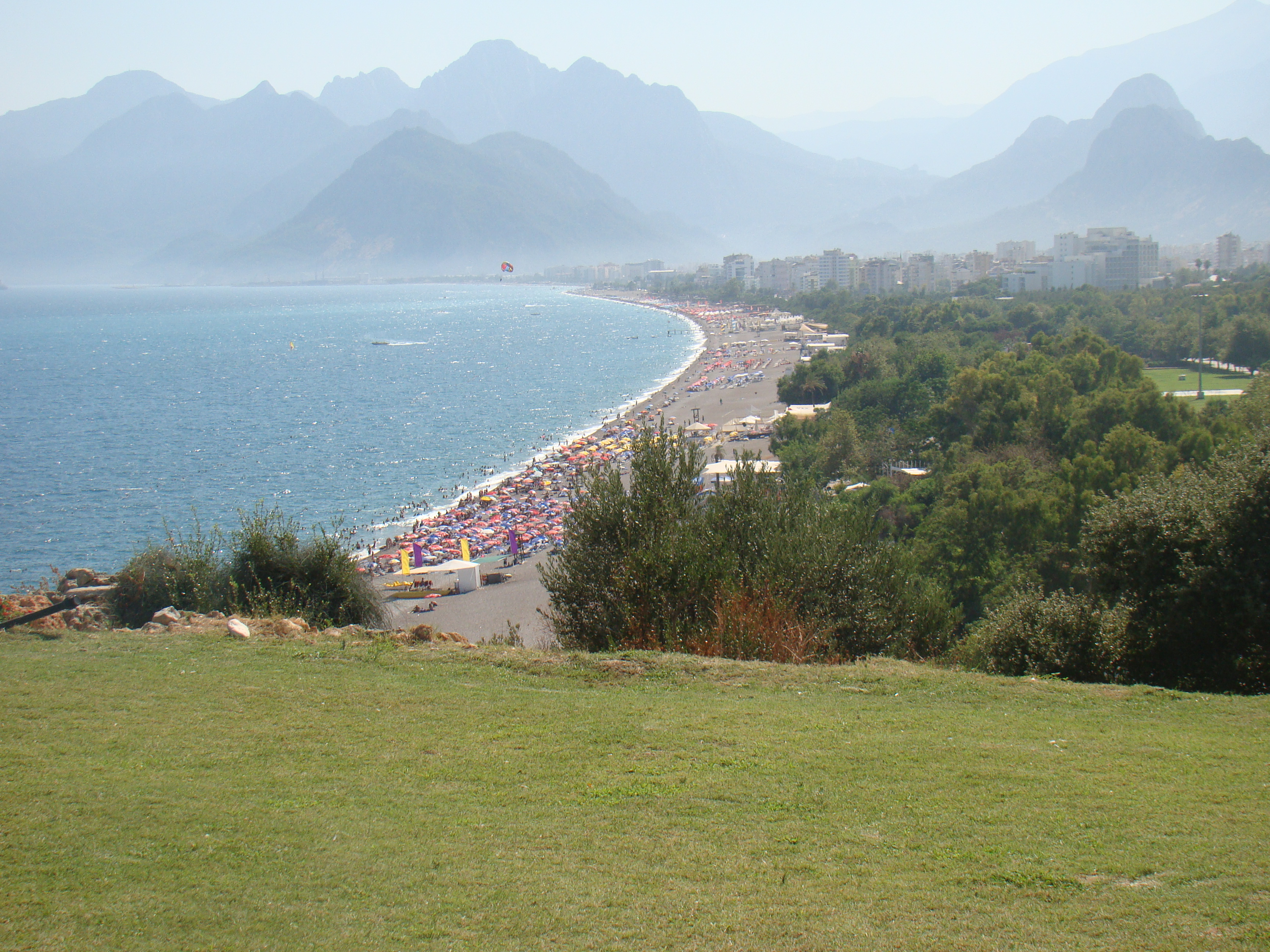 Antalya Beach